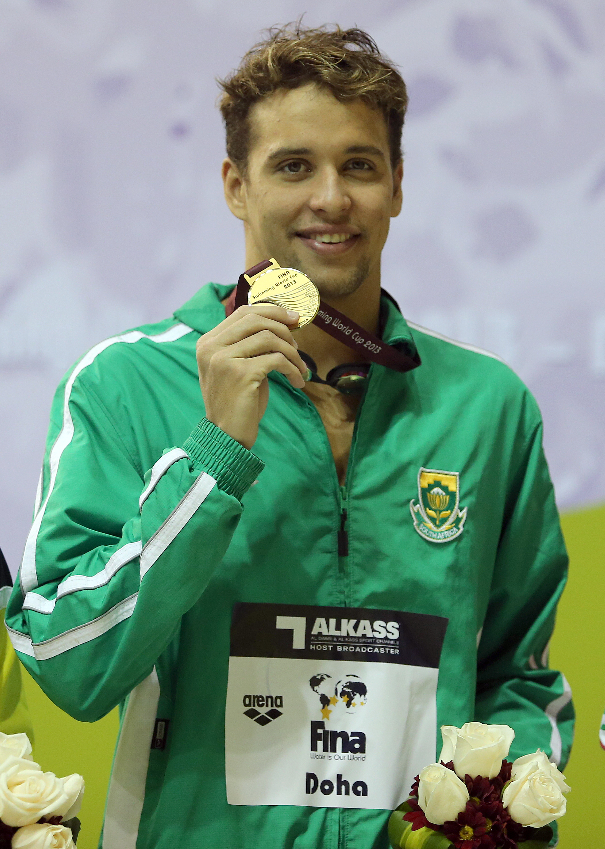 South African swimmer Chad le Clos during the Doha leg of the 2013 FINA Swimming World Cup.